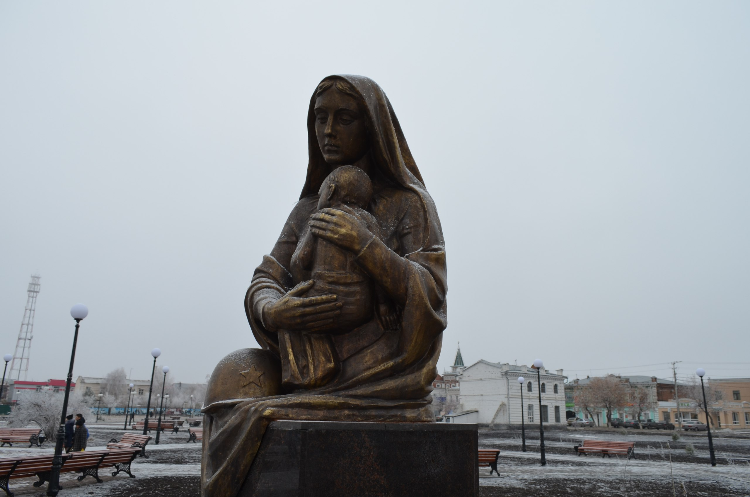 Monument to the soldier's mother in the public garden of the Oath